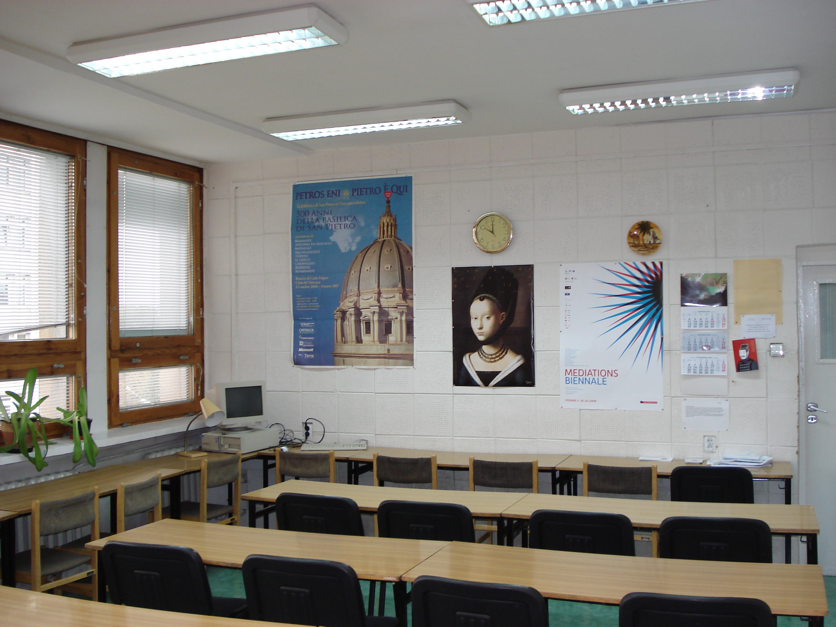 Reading room of the Library of the Dept. of Art History, Adam Mickiewicz University in Poznań